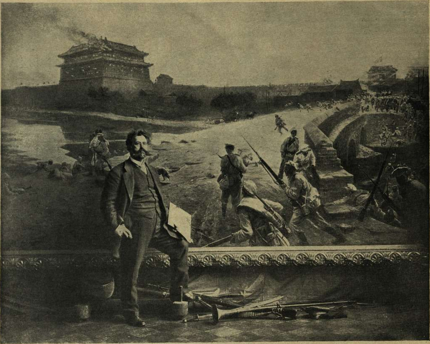 Photo from the magazine "New Time" 1913. The photo shows the artist N.I. Kravchenko against the background of the painting "The Taking of Beijing"